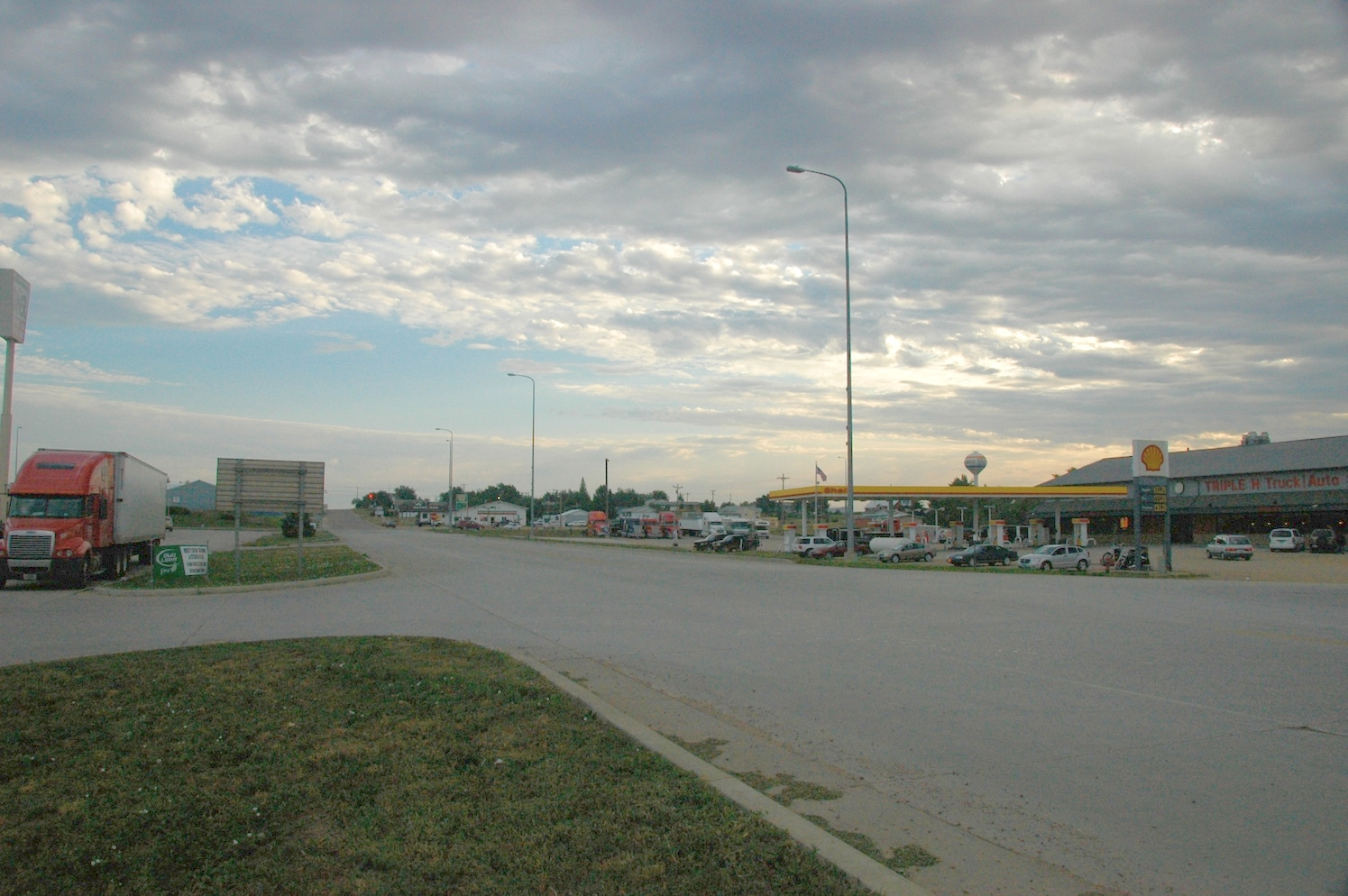 Overview of Murdo, South Dakota. Looking north from the U.S. 83 / I-90 junction in Murdo.